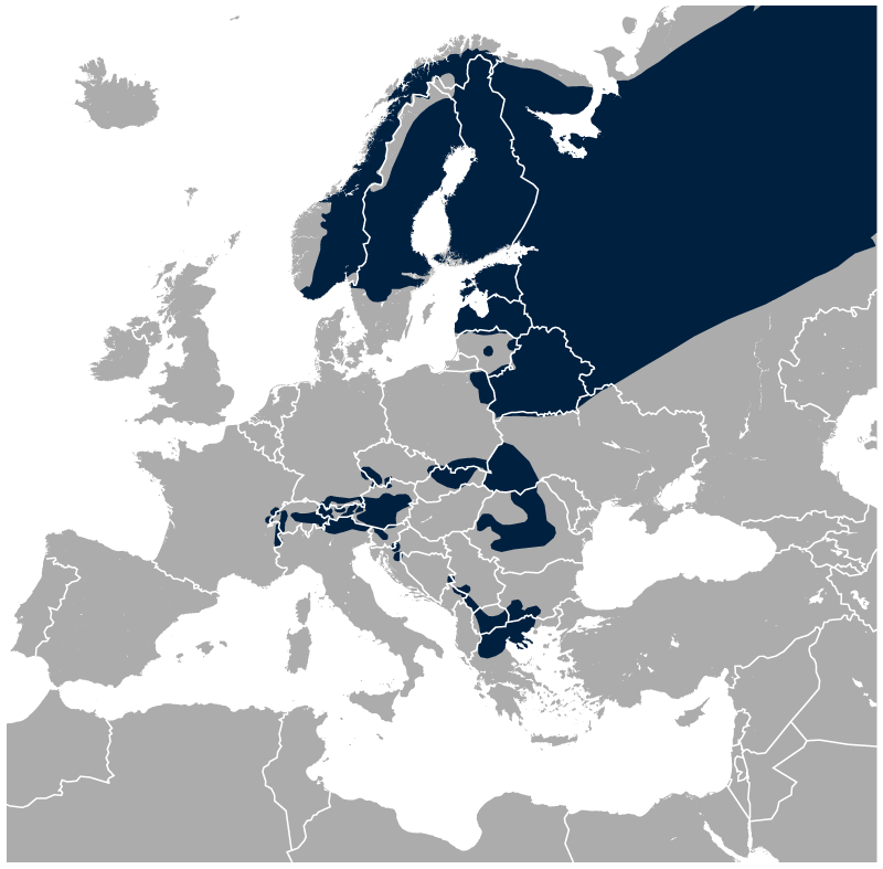 Geographical distribution of the Eurasian Three-toed Woodpecker Picoides tridactylus in Europe, along with national borders. Note: IUCN does not recognize the American Three-toed Woodpecker Picoides (tridactylus') dorsalis as separate species. The map was created using the Generic Mapping Tools, GMT, version 5.1.2.